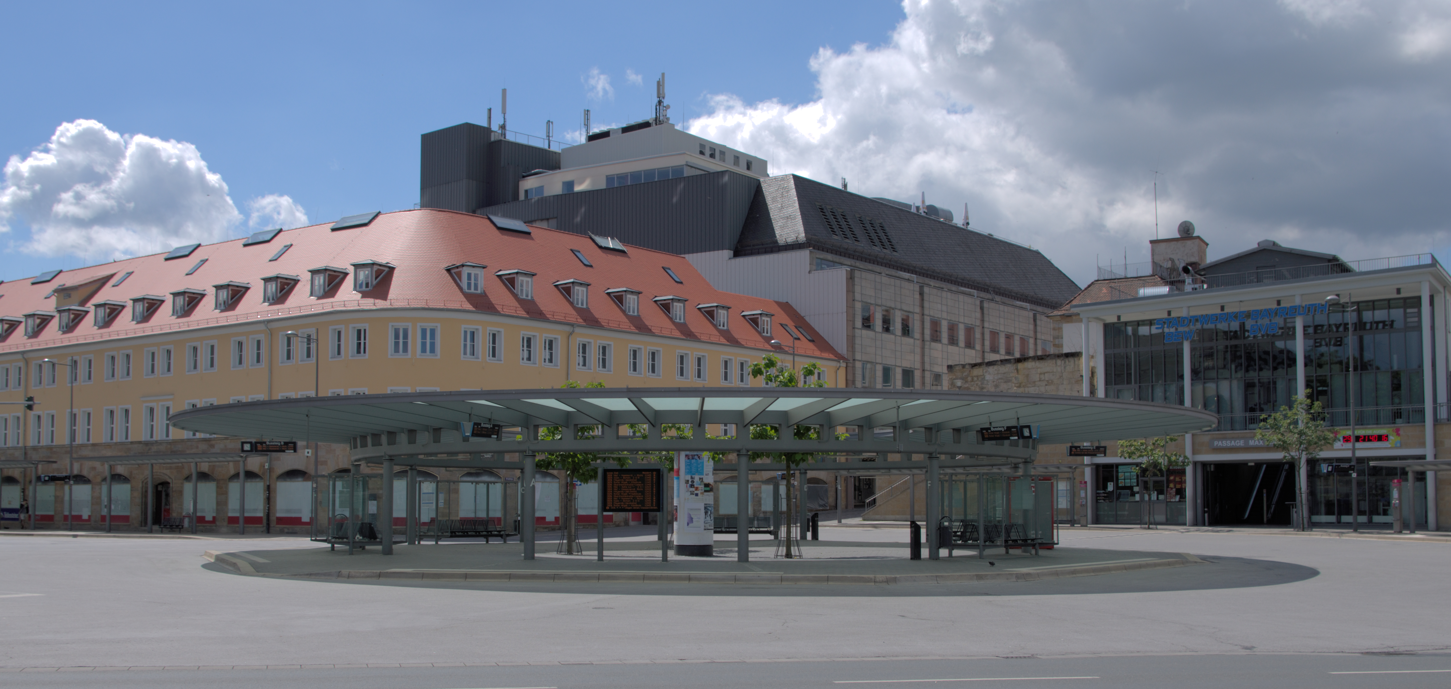 The central bus station (ZOH, Zentrale Omnibus-Haltestelle) in Bayreuth, Germany.